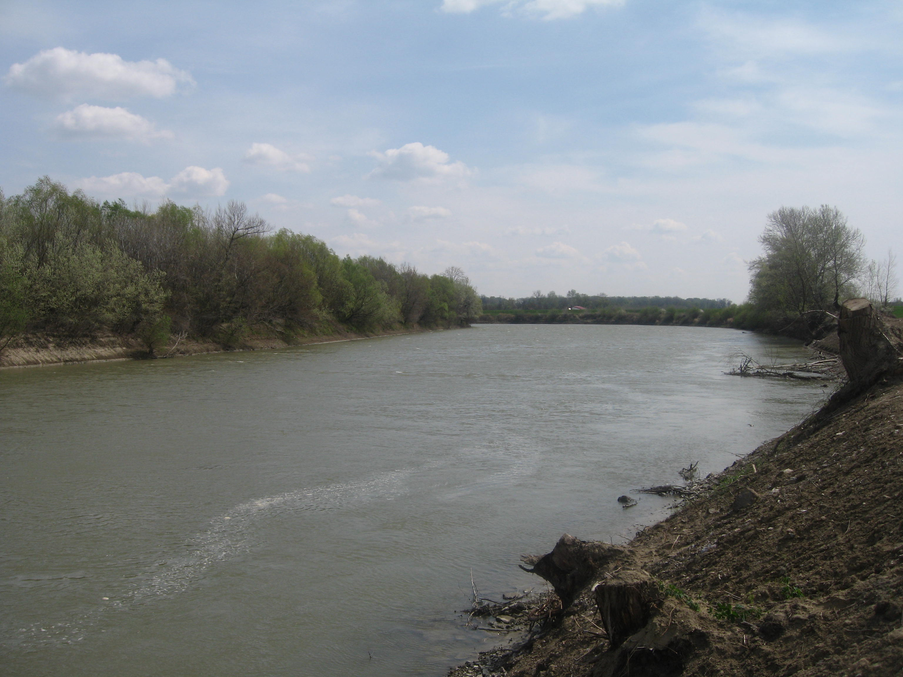 Prut River. The photography was taken on the right (Romanian) bank of the river, near Drânceni, Vaslui county.